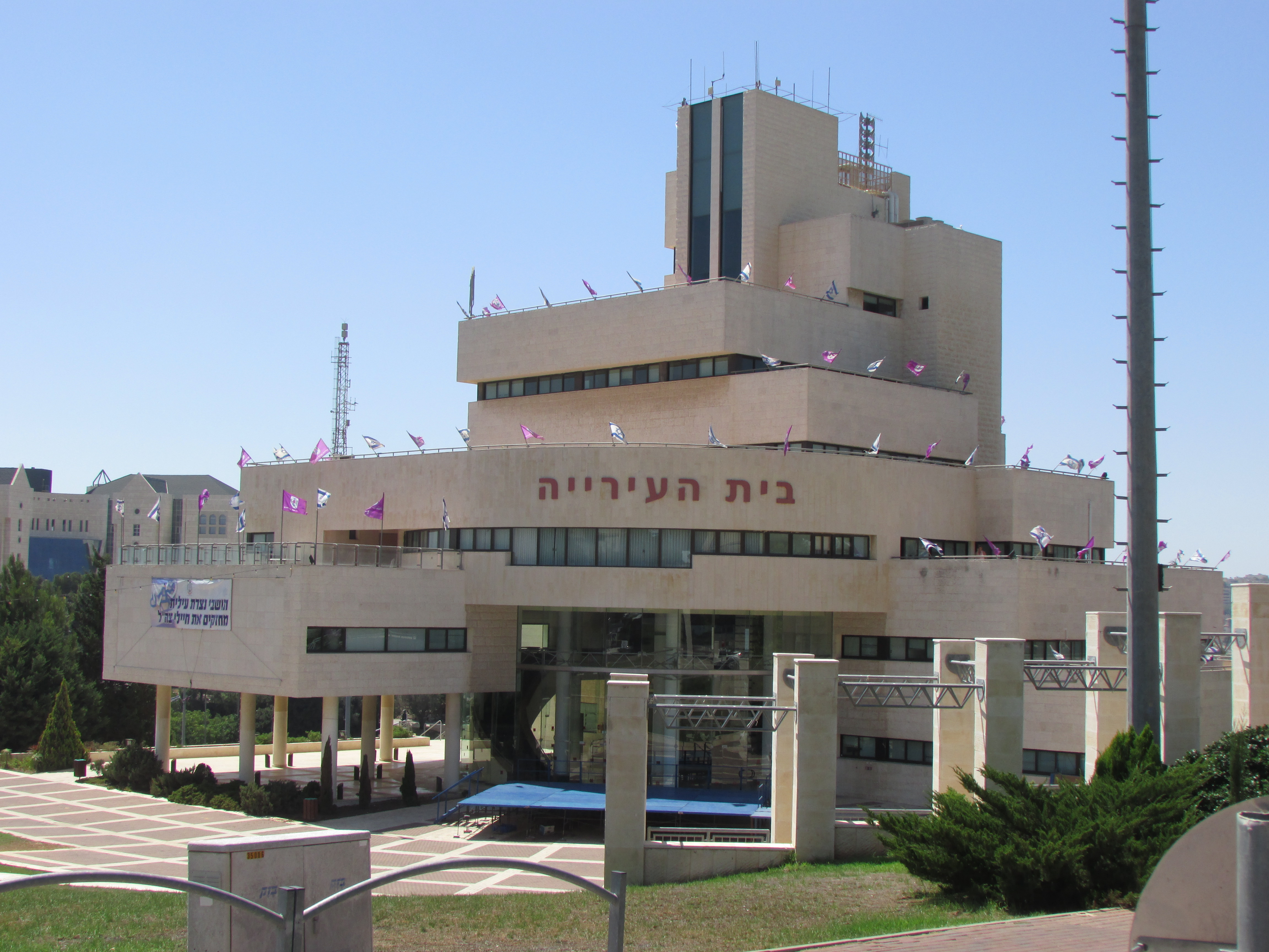 Nazareth Illit city hall